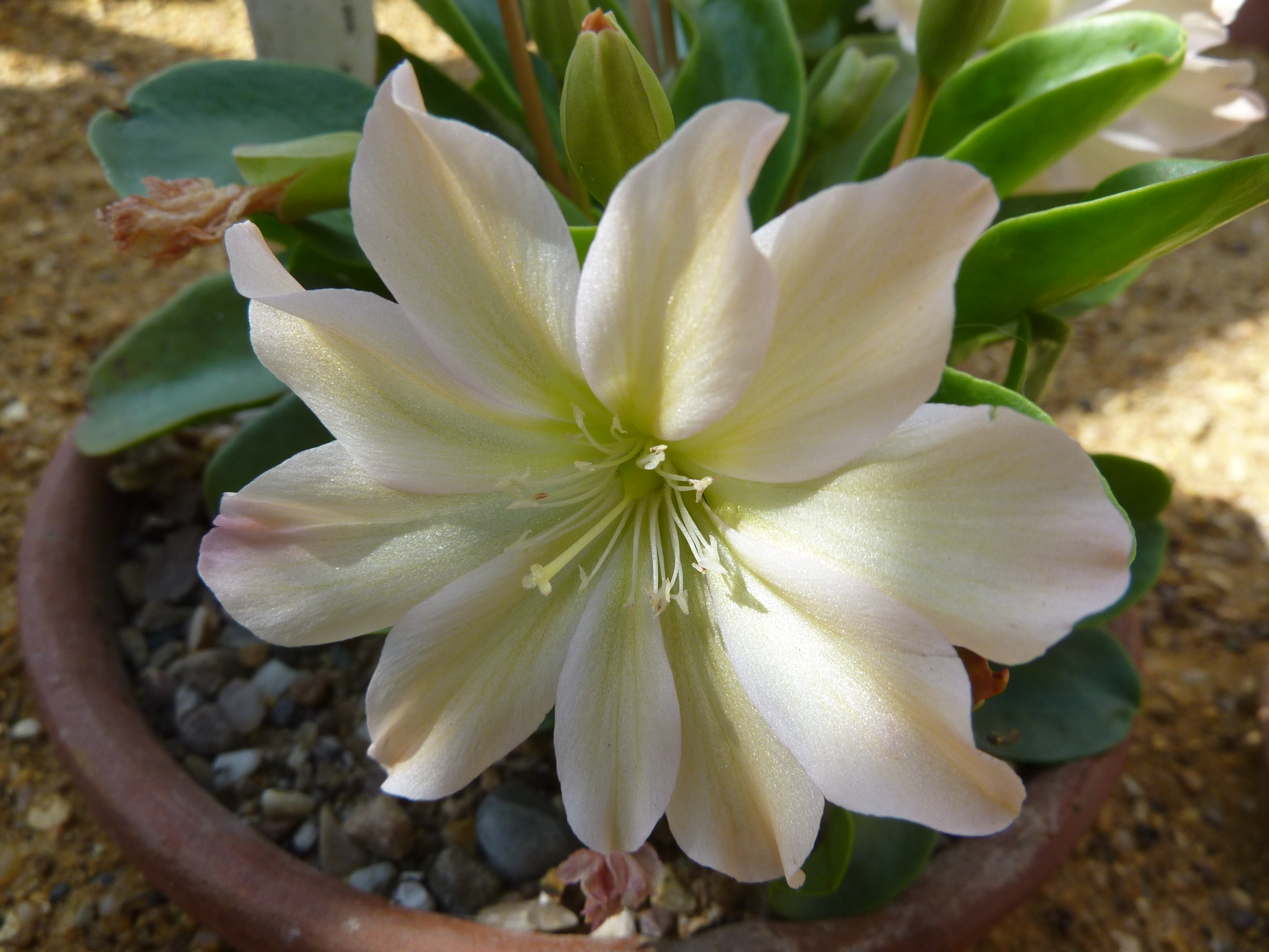 Taken in the Cambridge University Botanic Garden.